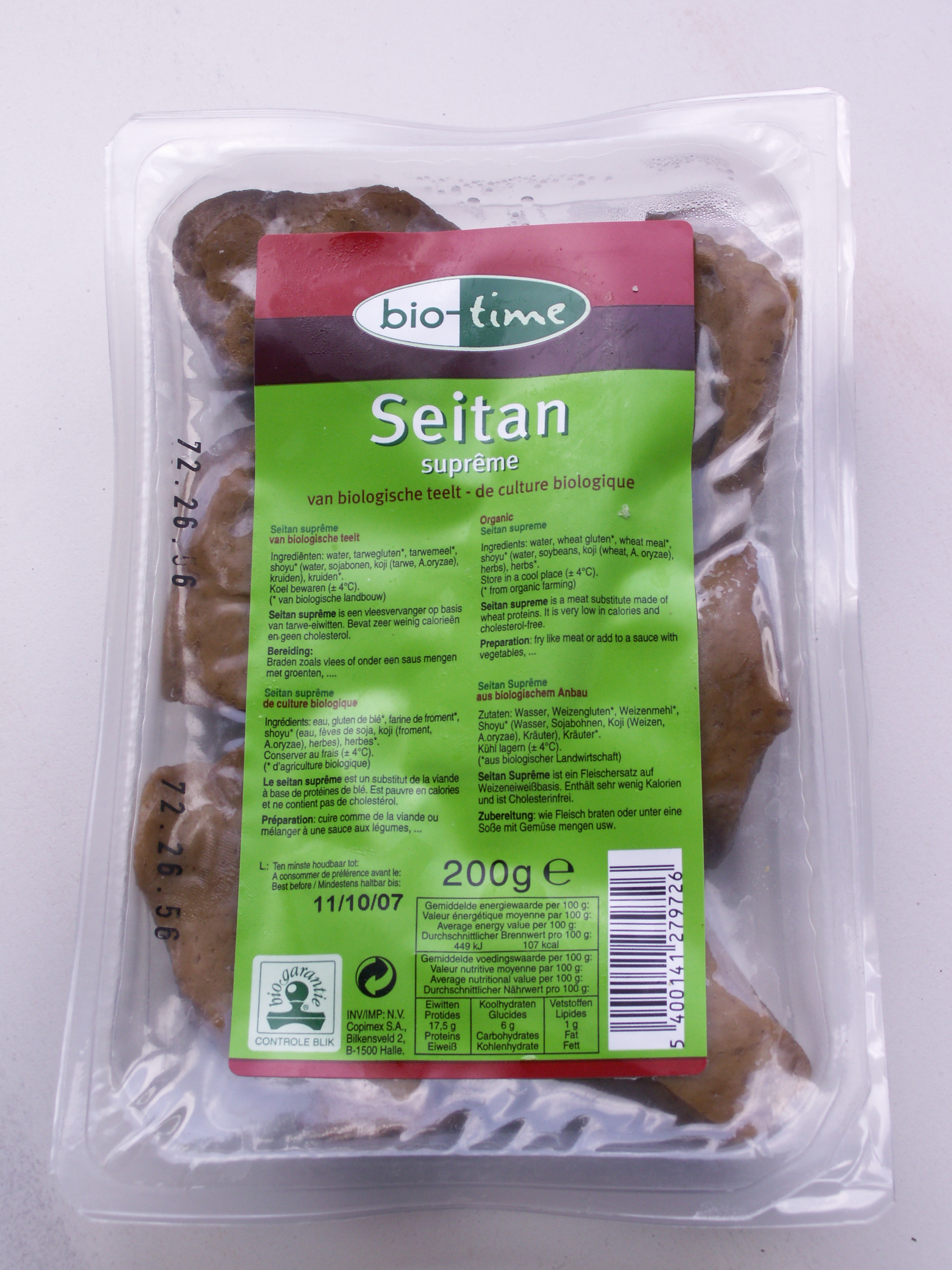 A pack of packaged seitan